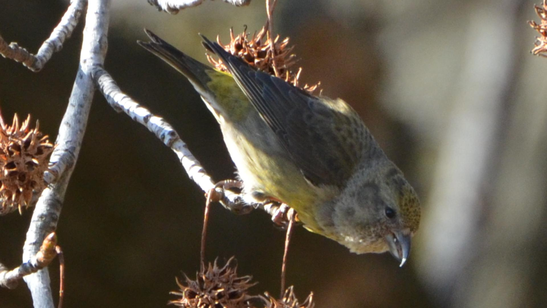 Faust Park in Chesterfield Missouri on 1/20/13. We were with Jill and Beth. They got to witness their first 14 plus male and female Red Crossbills in full splendid sun on a chilly day.